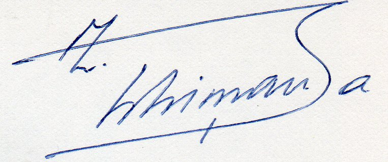 Zacharie Tshimanga's Signature